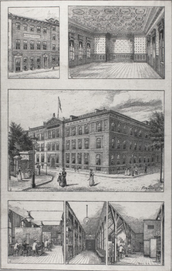 Nr. 3. I Anledning af det Tekniske Selskabs Skoles Jubilæum